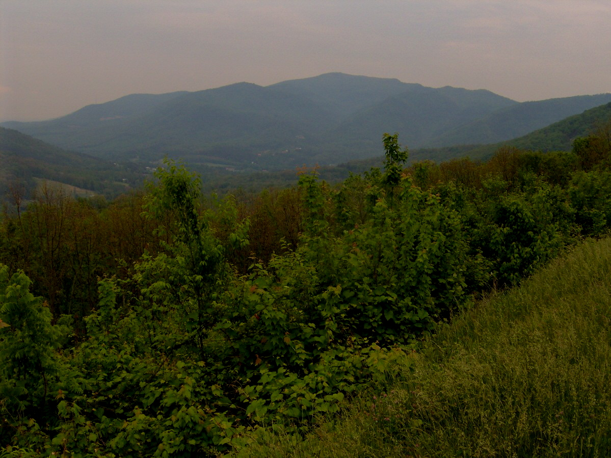 Hall Top (Stone Mountain), looking east from the Green Mountain section of Foothills Parkway in Cocke County, Tennessee (Southeastern U.S.).